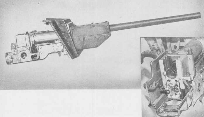 Japanese tank gun type 1 - 47 mm